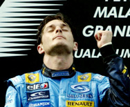 Giancarlo Fisichella (Renault) won the 2006 Malaysian Grand Prix